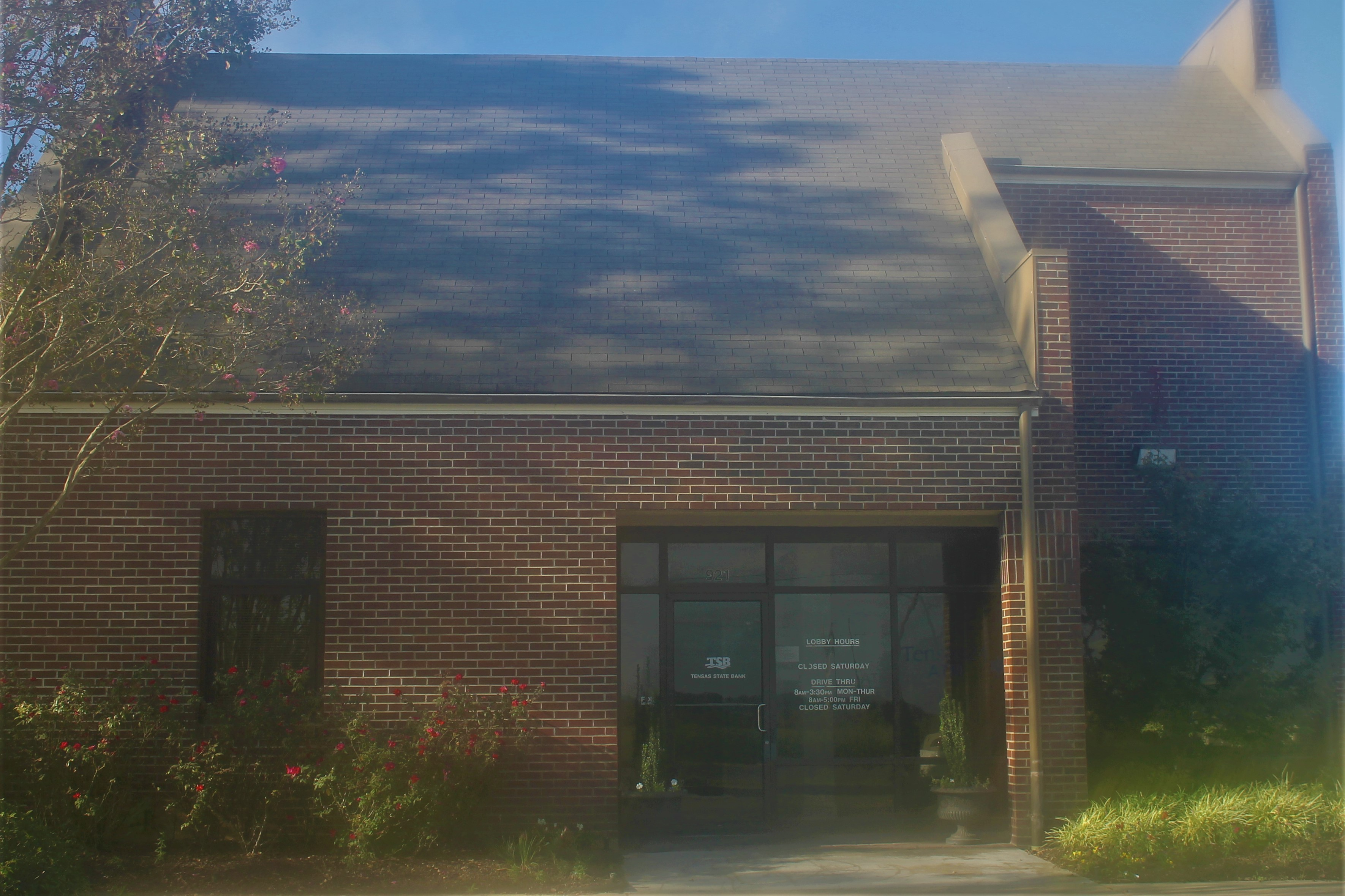 Tensas State Bank, St. Joseph, LA